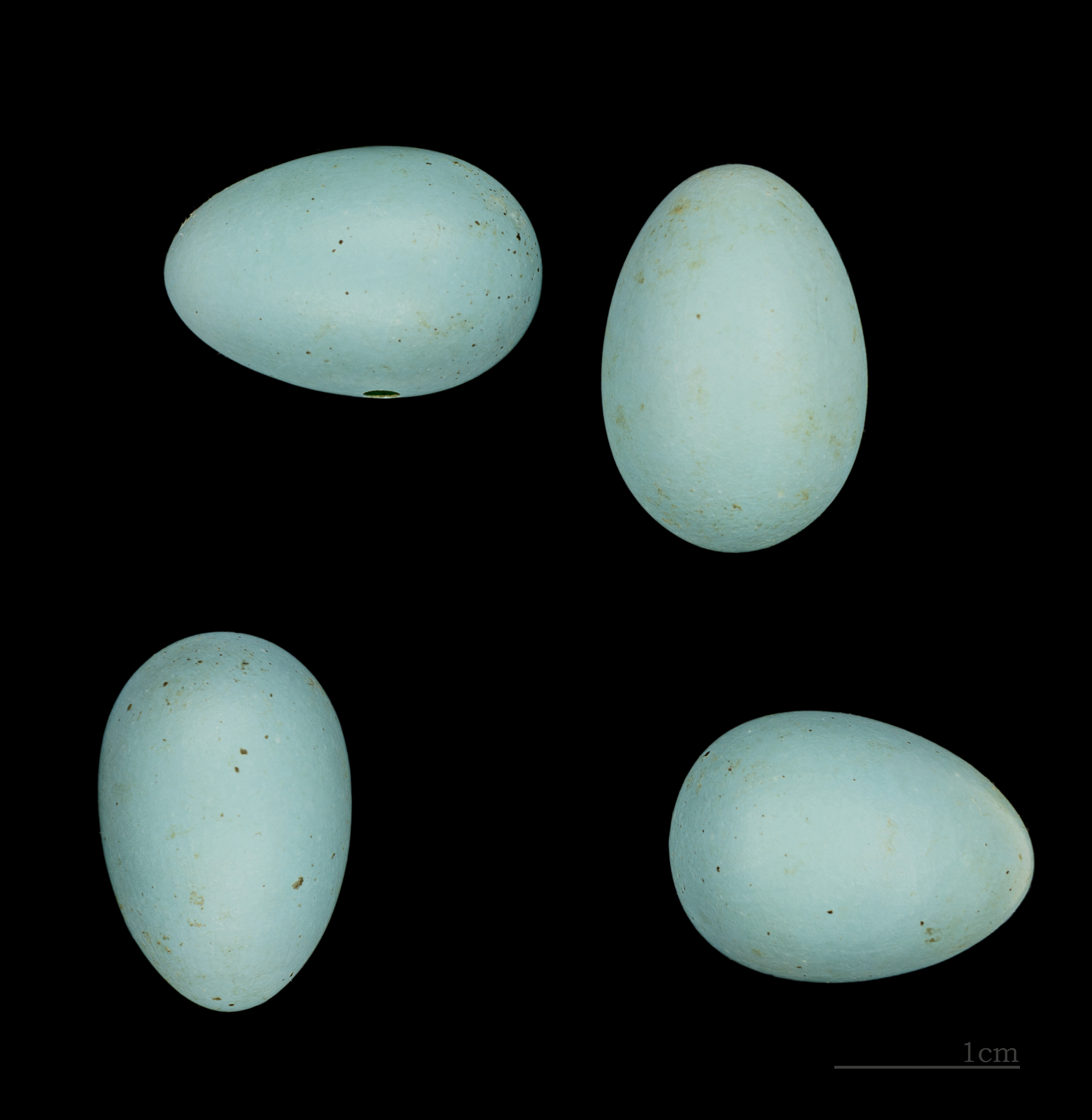 Egg of Pallas's Rosefinch. Collection of Perrin de Brichambaut.